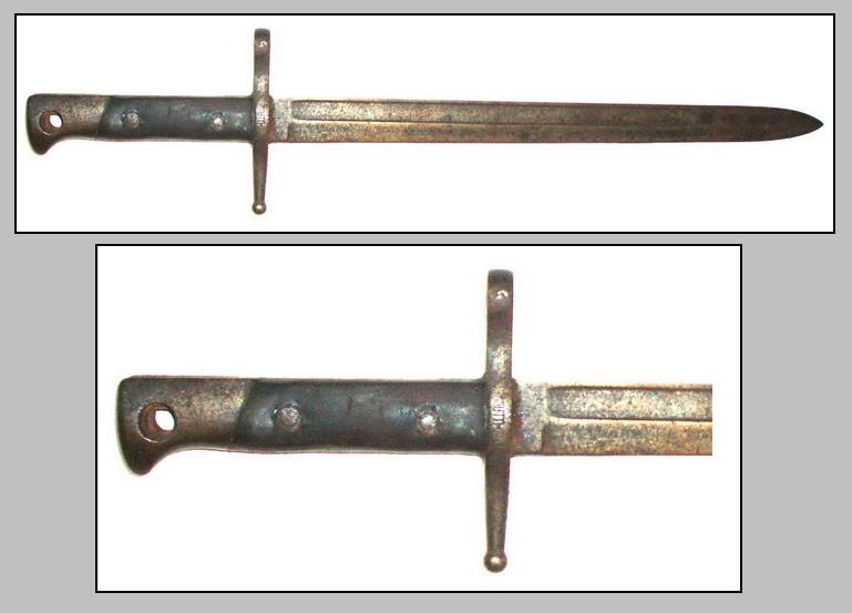 Italian bayonet (1941) from Montenegro.